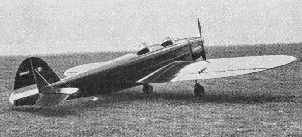 SIM-VI A photo from L'Aerophile June 1938